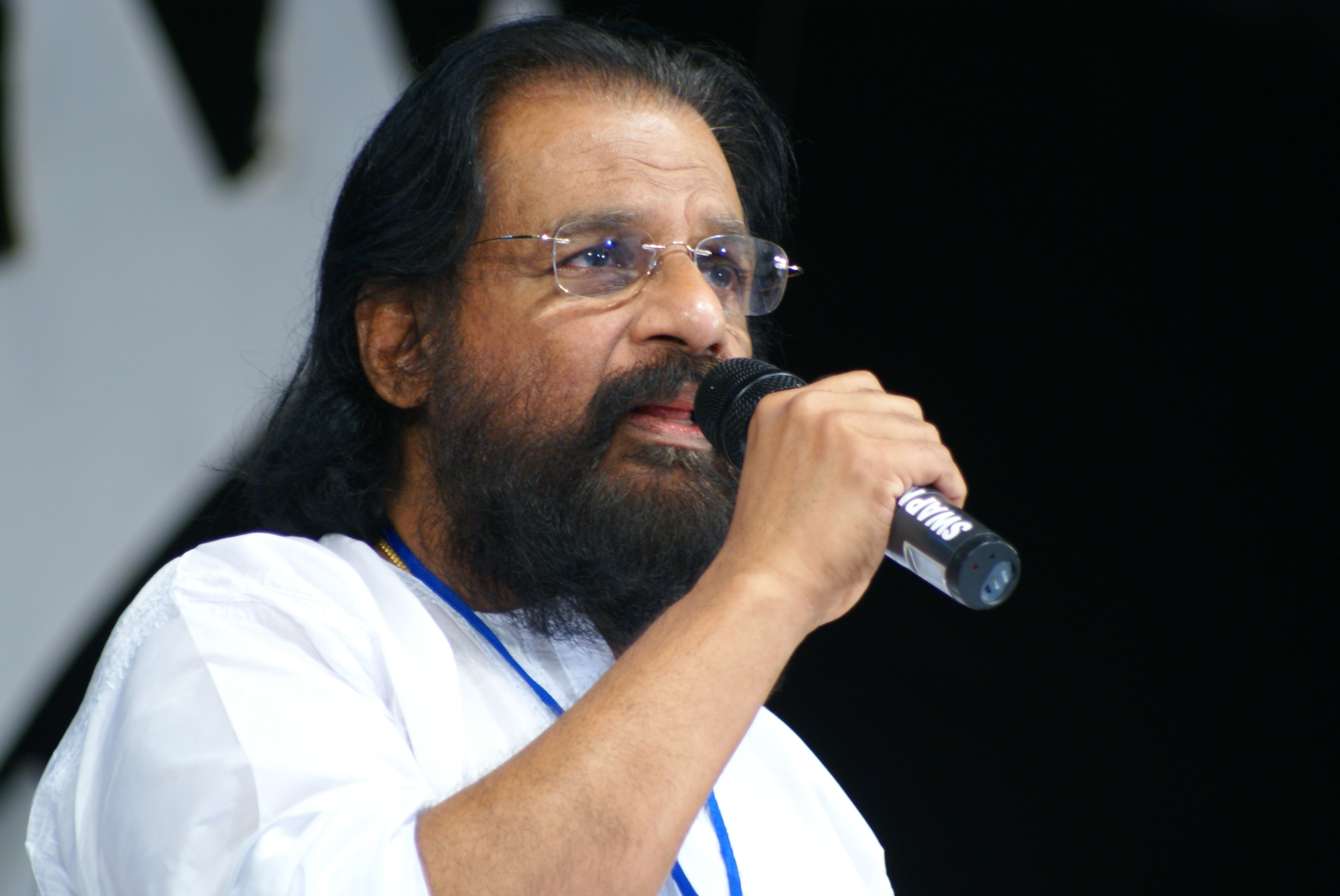 Famous Indian playback singer.